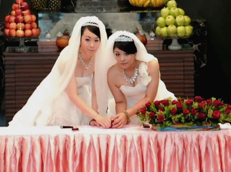 Buddist same-sex marriage in Taiwan, Republic of China.